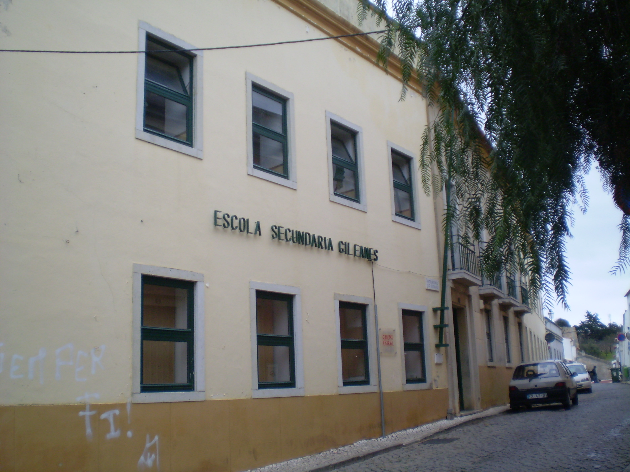 Gil Eanes School in Lagos, Portugal. This school was adapted from an old industrial school, built on the site of the Nossa Senhora do Carmo (Our Lady of the Mount Carmel) Convent.